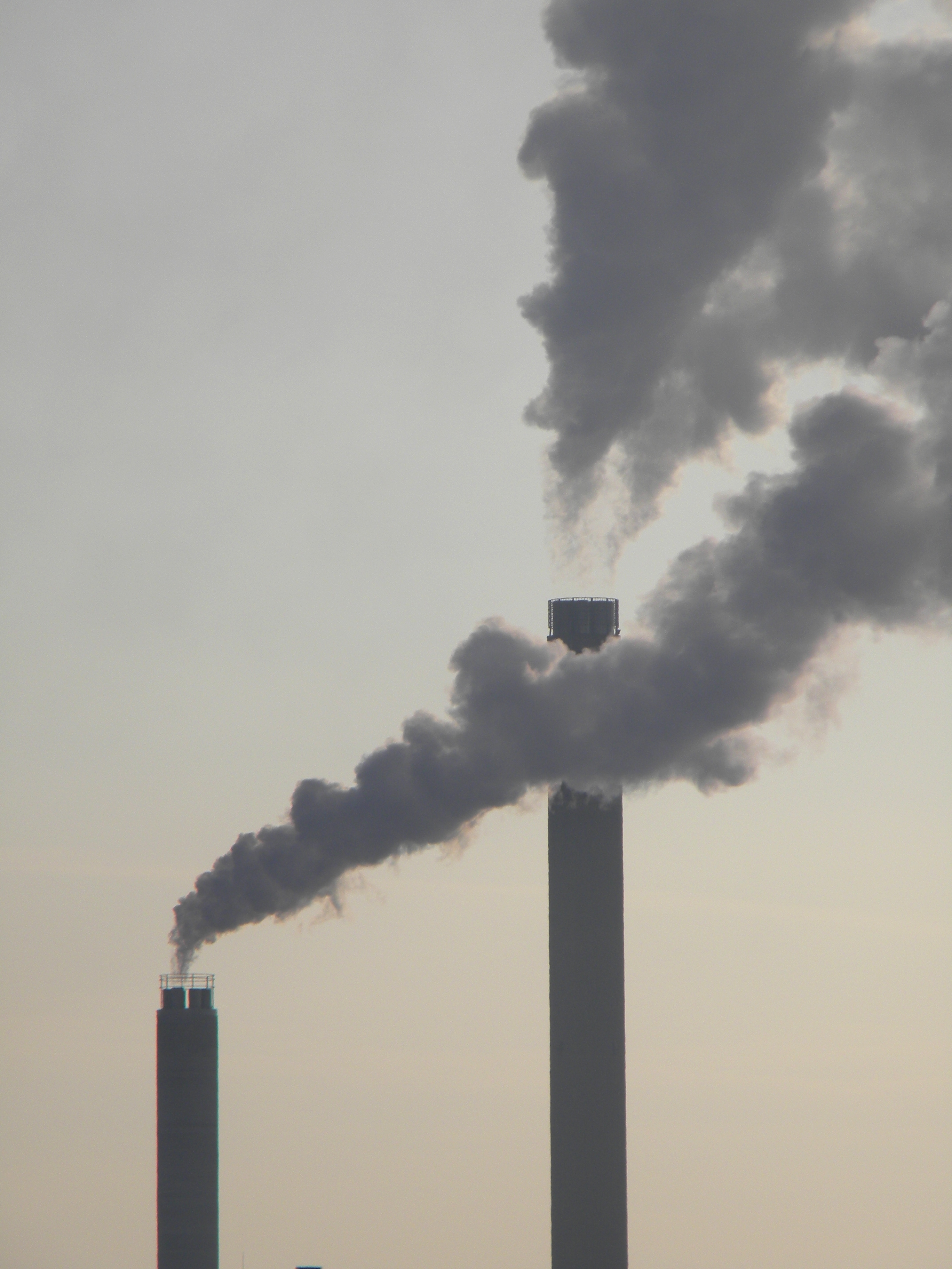 Smoke plumes from the chimneys of a power plant in Helsinki, Finland.